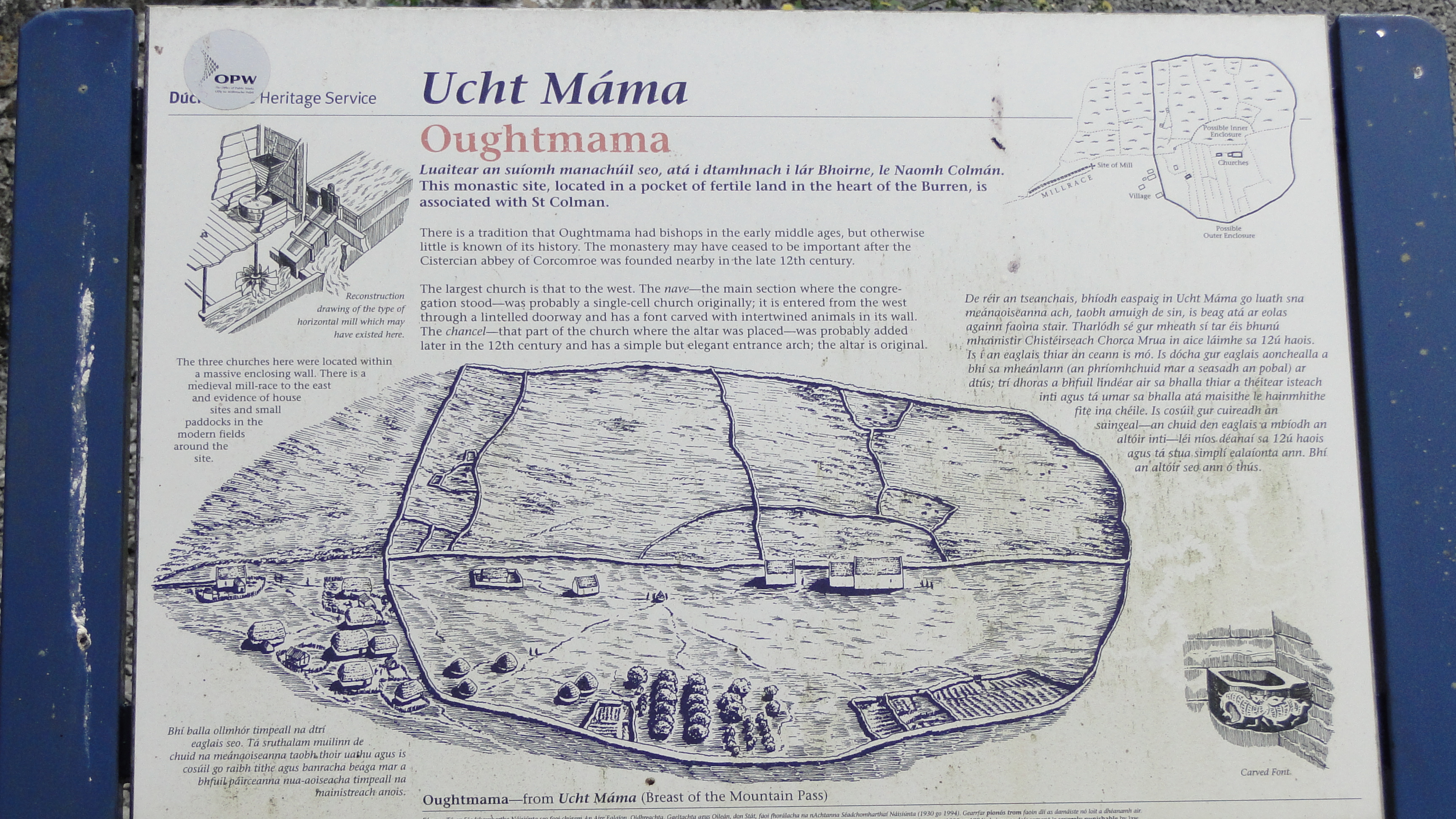 Public info sign at the Oughtmama churches, County Clare, Ireland showing the likely appearance of the monastic enclosure